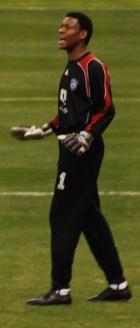 Mohamed Al-Deayea is a Saudi Arabian football goalkeeper. He played in four World Cups for the Saudi Arabia national team.